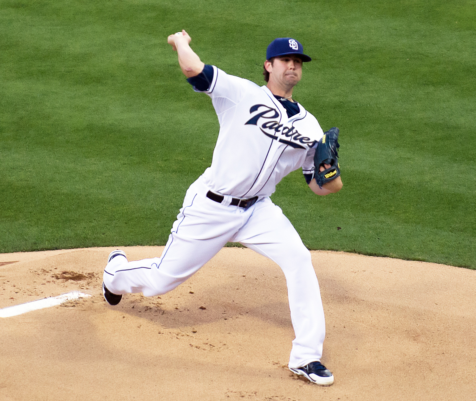 First pitch in the Major Leagues by Casey Kelly of the San Diego Padres at Petco Park August 27, 2012